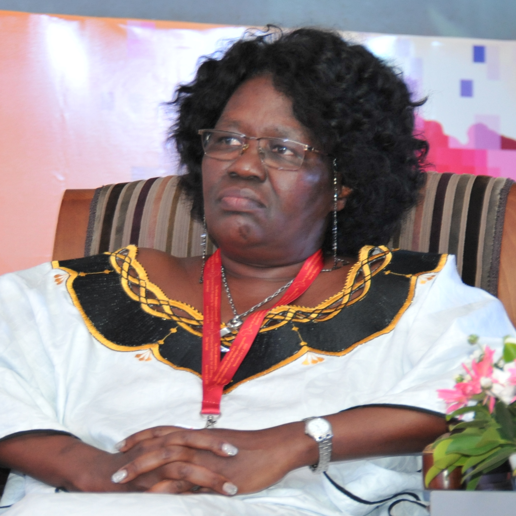 Catherine A. Odora-Hoppers, an internationally recognized scholar and Professor at the University of South Africa, took part in a high level segment on "Africa in a Knowledge-Based Economy-Challenges and Opportunities" organized in the context of the African Ministerial Conference 2015: Intellectual Property for an Emerging Africa, which met from November 3 – 5, 2015 in Dakar, Senegal. Copyright: WIPO. Photo: Cheikh Saya Diop. This work is licensed under a Creative Commons Attribution-ShareAlike 3.0 IGO License.